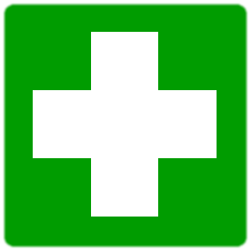 First Aid Symbol